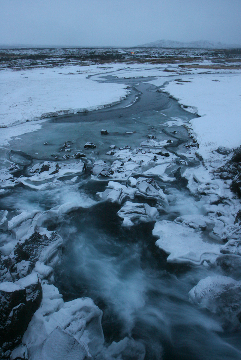 The Drowning Pool draining into Öxará, November 25 17:28 Iceland, November 2007 Photo by me user:debivort (or my friend who has given me permission to freely license our photos from Iceland)